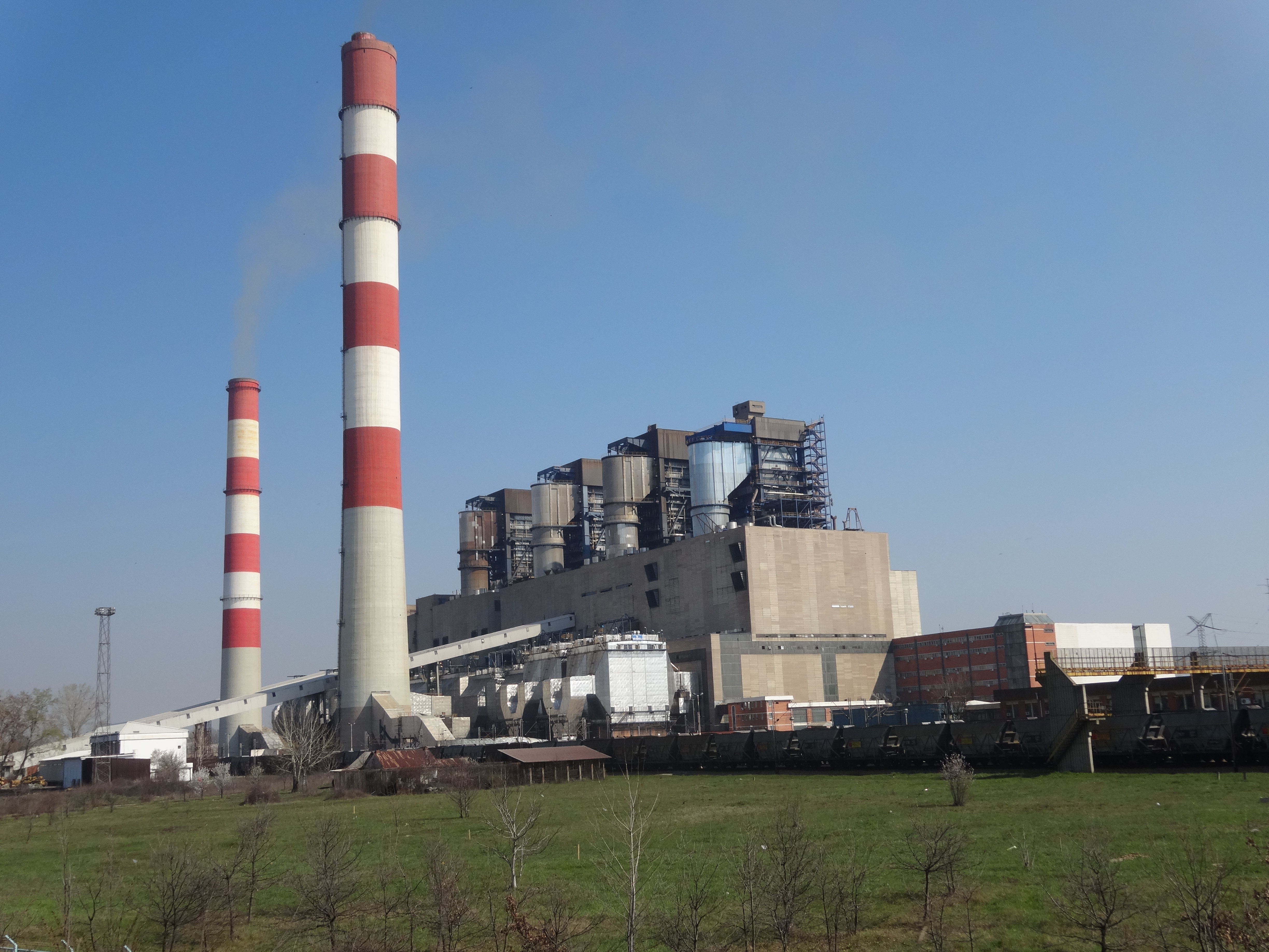 Thermal Power Plant Nikola Tesla, Urovci Српски (ћирилица): Термоелектрана Никола Тесла, Уровци